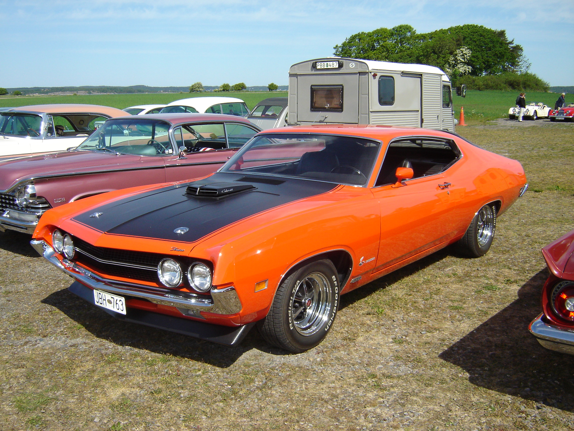 Ford Torino